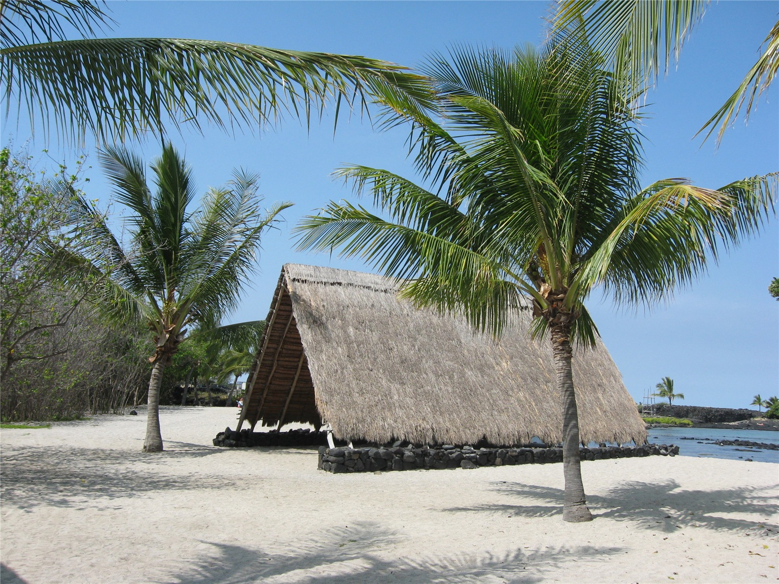 A reconstructed ancient Hawaiian beach shelter (Halau) at Kaloko-Honokohau National Historic Park. Near Kailua-Kona, Big island of Hawaiʻi.